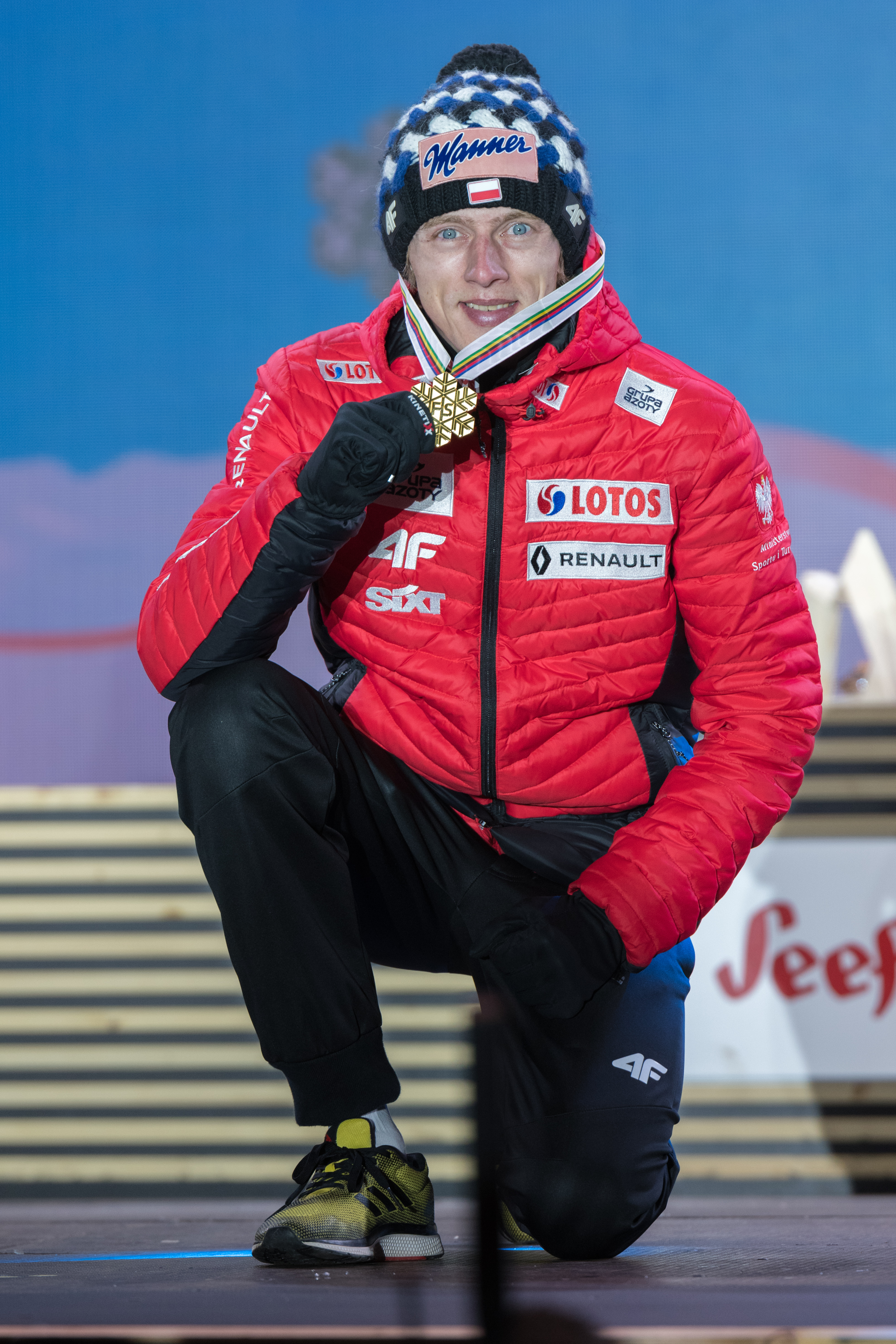 FIS Nordic World Ski Championships Seefeld 2019 - Medal Ceremony at the Medal Plaza. Picture shows Dawid Kubacki (POL)